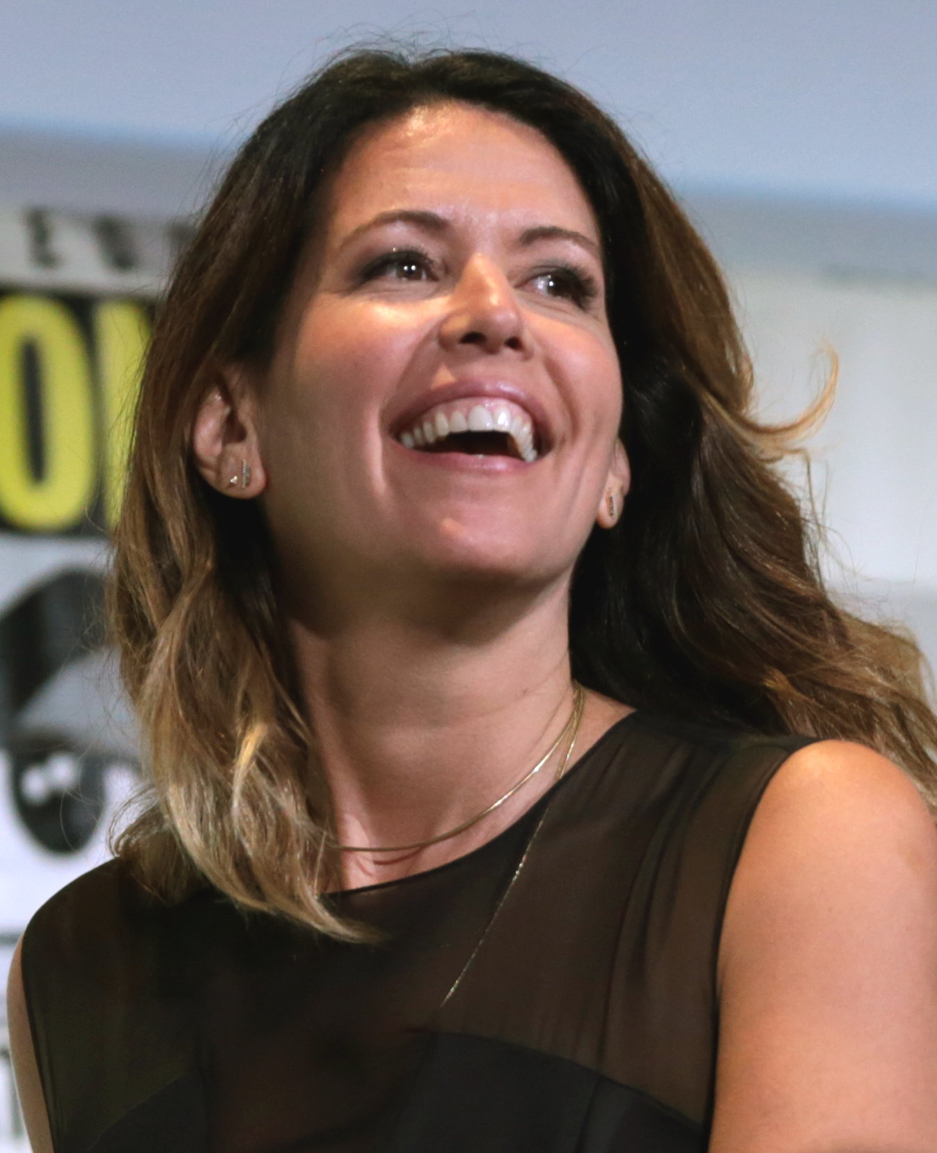 Patty Jenkins promoting Wonder Woman at the 2016 San Diego Comic-Con International.